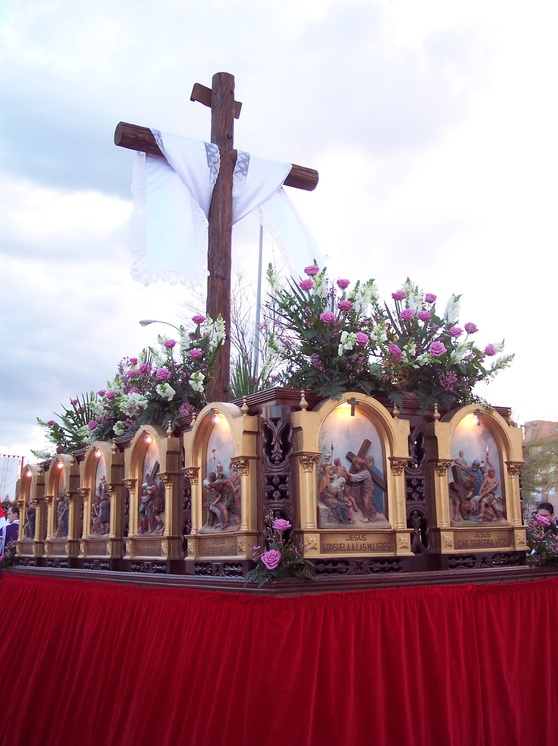 "Paso" of the Via Crucis in Salamanca, Spain